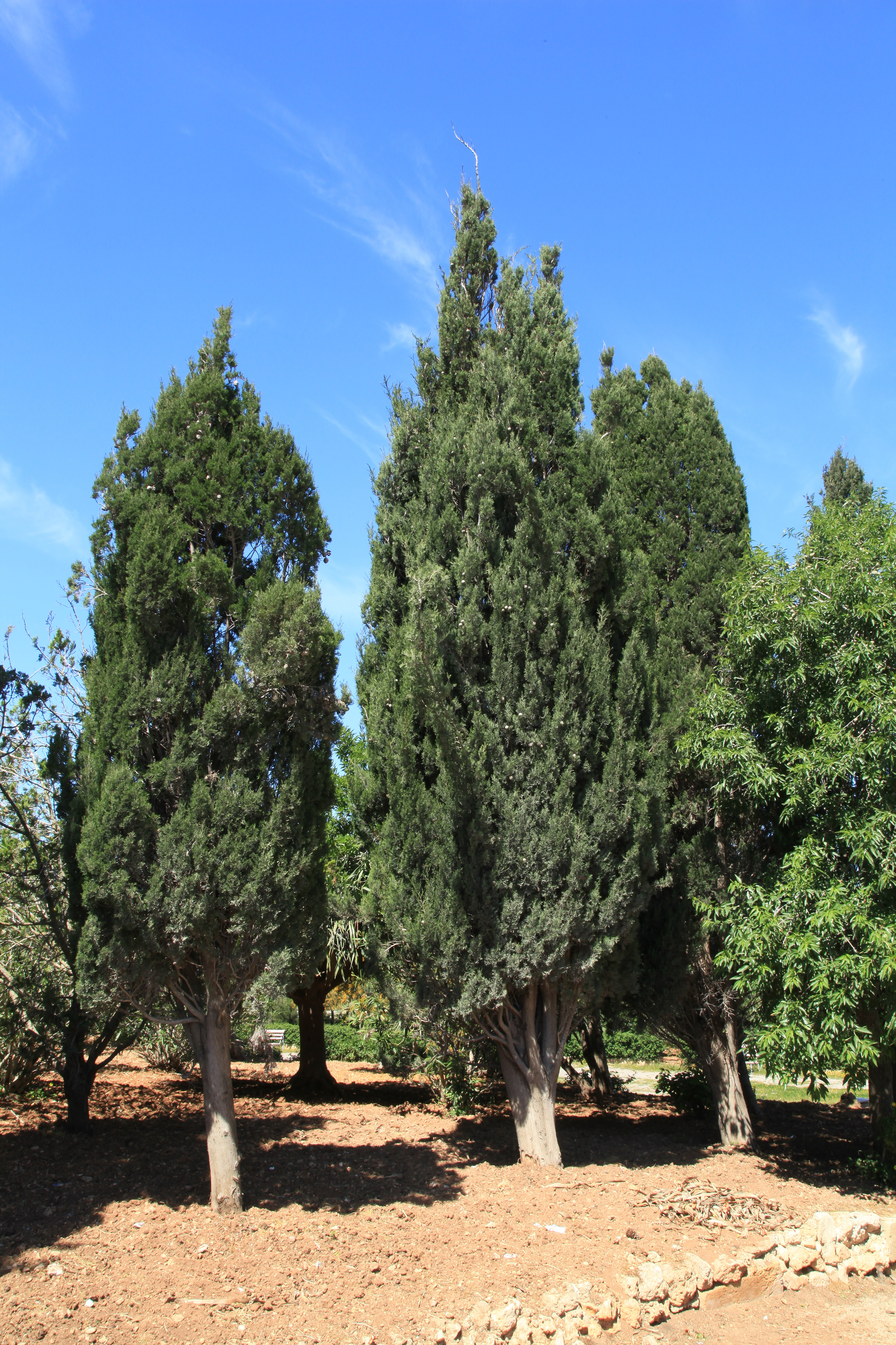 Ġnien l-Għarusa tal-Mosta, Triq Misraħ Għonoq in Mosta, Malta